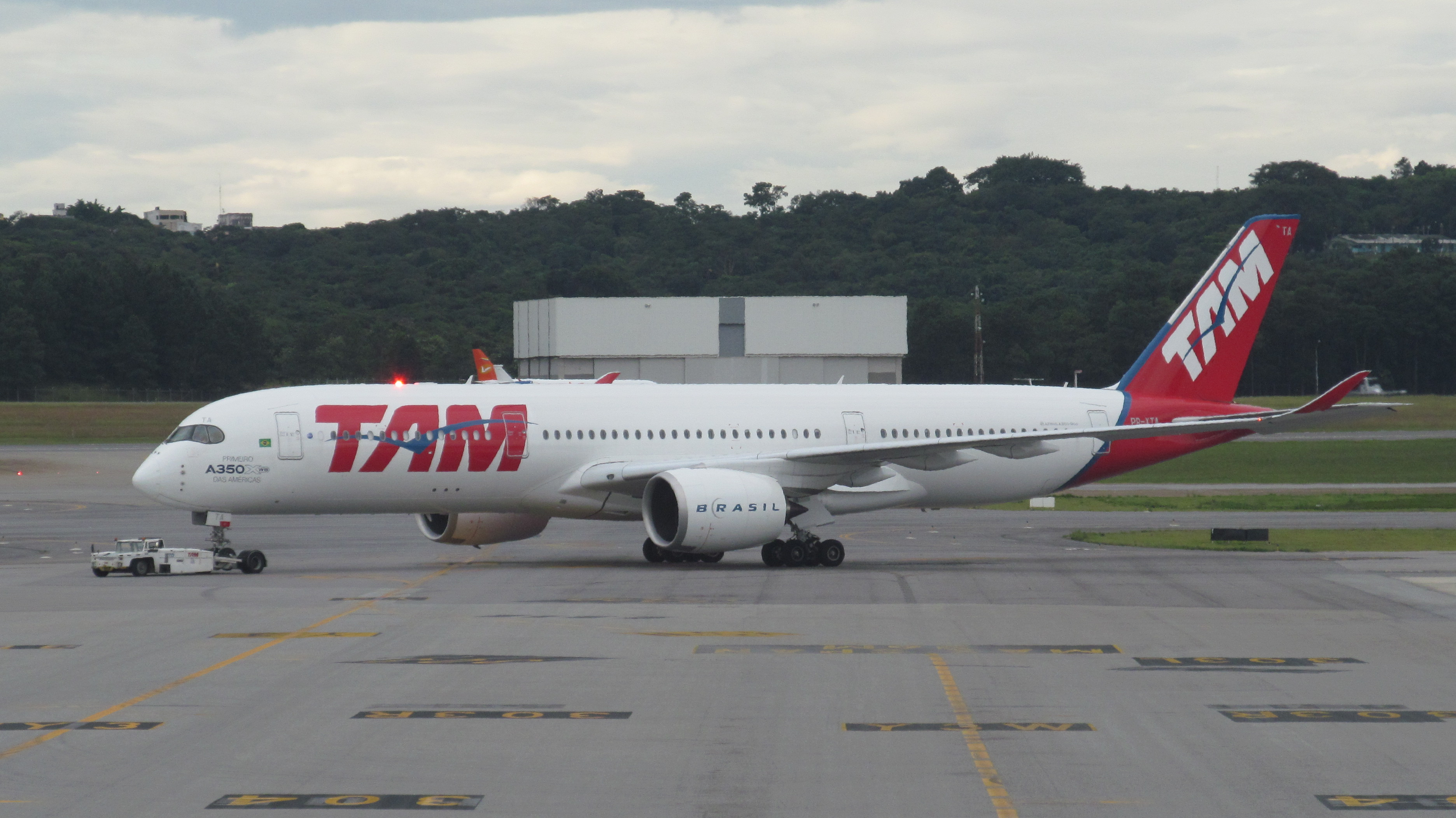 First A350-900 in Americas, LATAM PR-XTA, in Guarulhos International Airport (GRU), before flight.